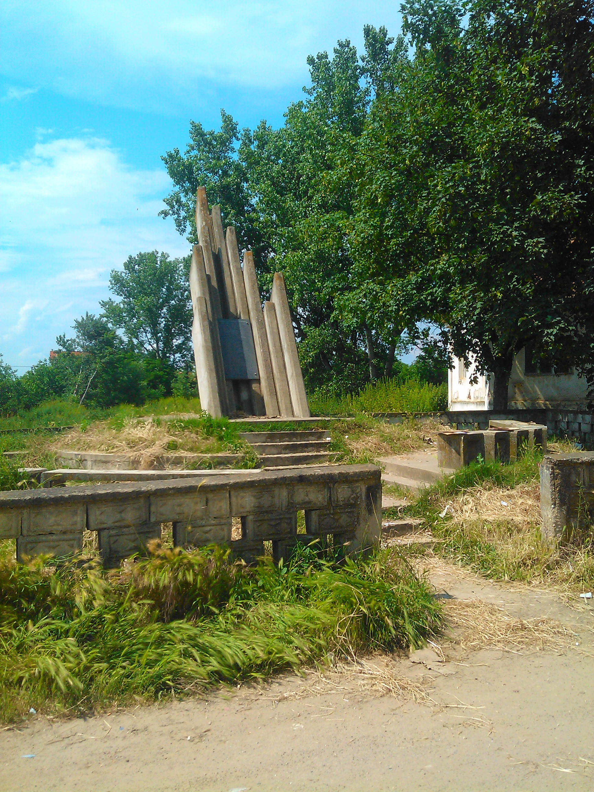 Spomenik u Bogojevcu